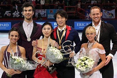 The pair skating at the Trophée Eric Bompard 2013. From left: Meagan Duhamel / Eric Radford (2nd), Pang Qing / Tong Jian (1st), Caydee Denney / John Coughlin (3rd).